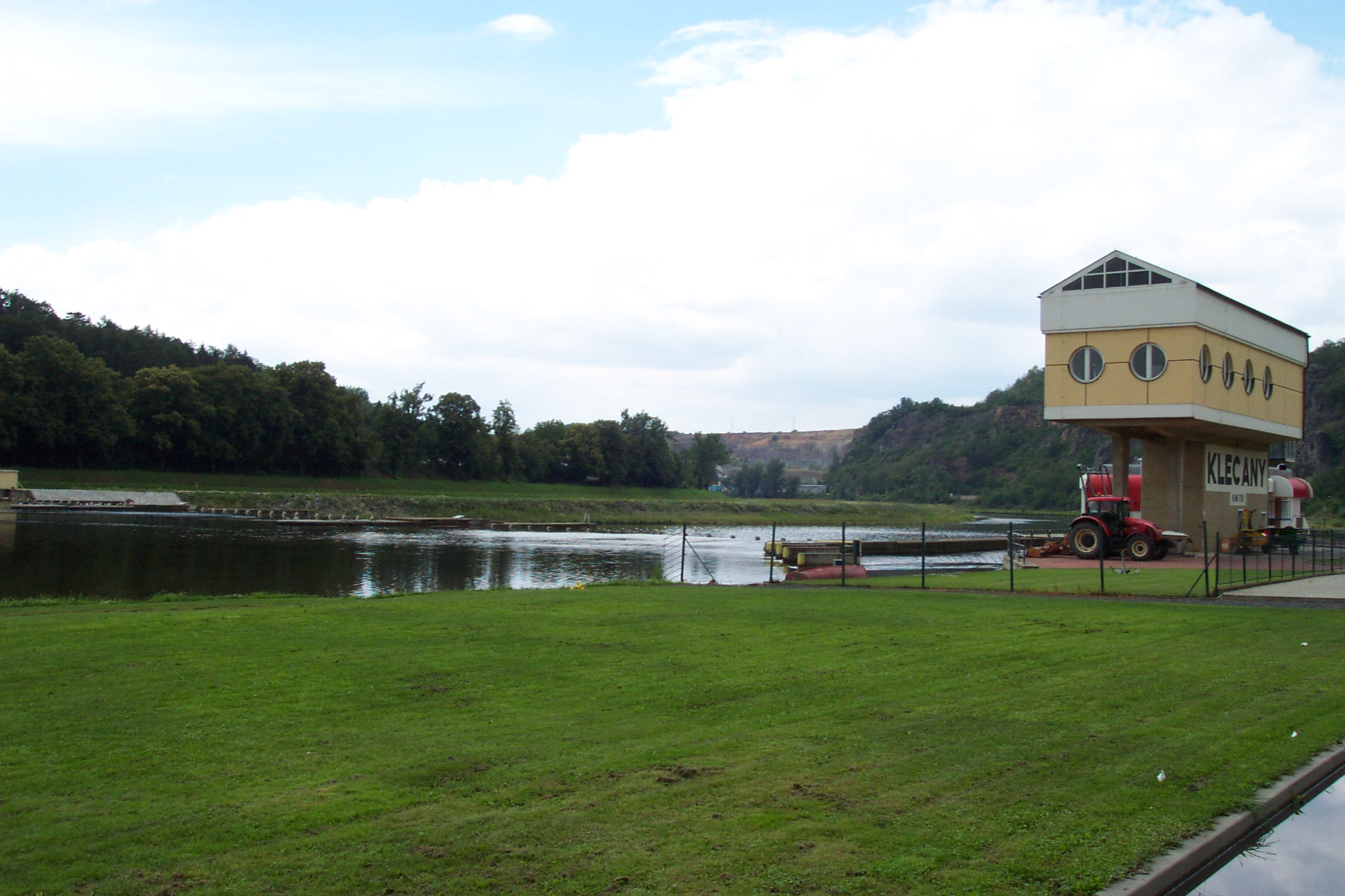 Hydro power plant in Klecany